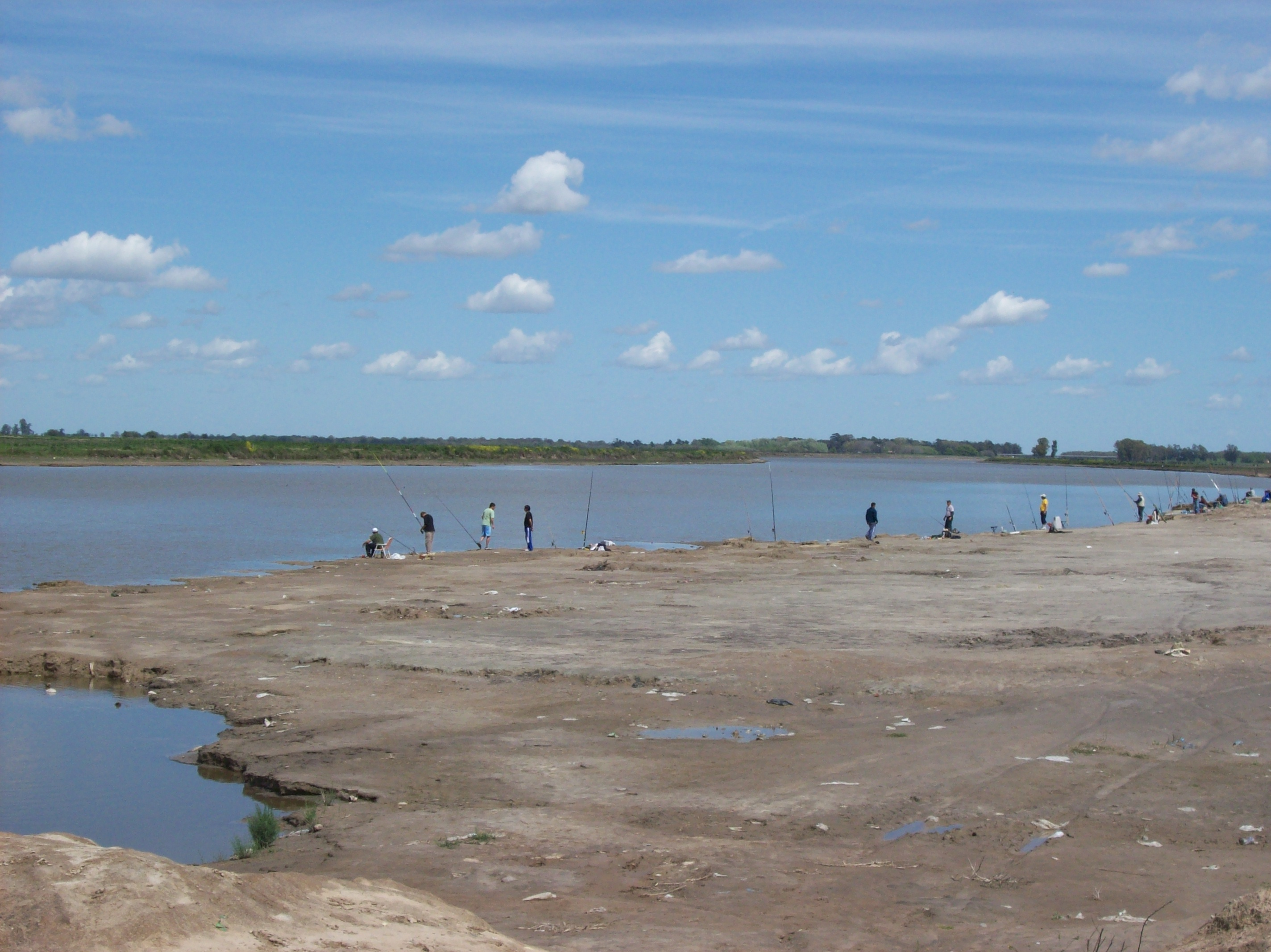 Fishing place on Salado river next to autovia 2, Buenos Aires Province, Argentina.